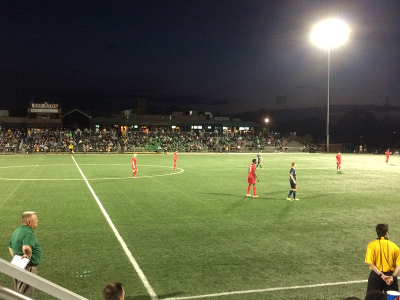 World Wide Technology Soccer Park - Saint Louis FC vs Toronto FC II May 14, 2015